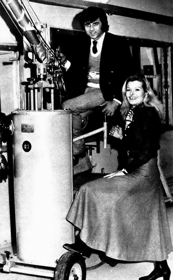 Italian singers Little Tony and Giovanna